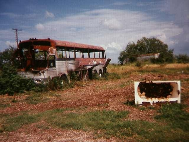 Mount Carmel (Branch Davidian compound site), near Waco, TX, 1997. Ruined bus and bathtub.